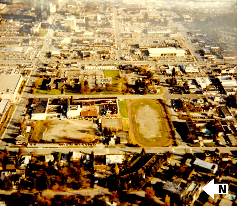 Aerial photo looking east toward the future site of Bellevue's Downtown Park (circa early 1980s). To the left is Bellevue Square. The streets running North-South are 100th Avenue Northeast, 102nd Ave NE (vacated), and 104th Ave NE (Bellevue Way NE) from bottom to top. The east-west street at left is NE 4th Street.